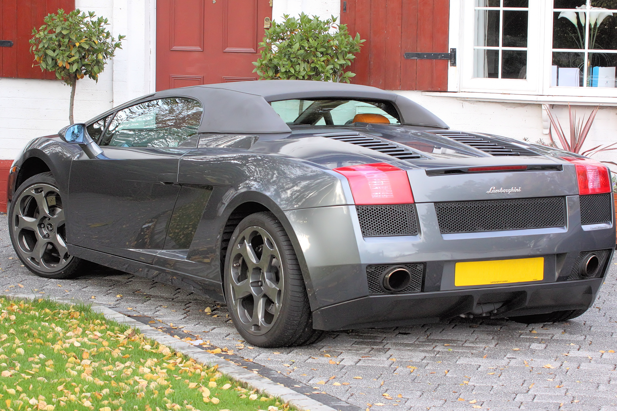 My Mum's nextdoor neighbour has become a member of the 'Supercar' club where you pay a membership fee each year and then get a choice of supercars to use every now and then during the course of the membership. His first one was a Porsche, but he went all out with this rather gorgeous car. For Top Gear fans, this particular car was owned by Jeremy Clarkson before he bought his new LP something or other lol !